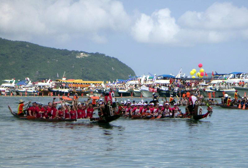 Dragon Boat Racing at Stanley beach.